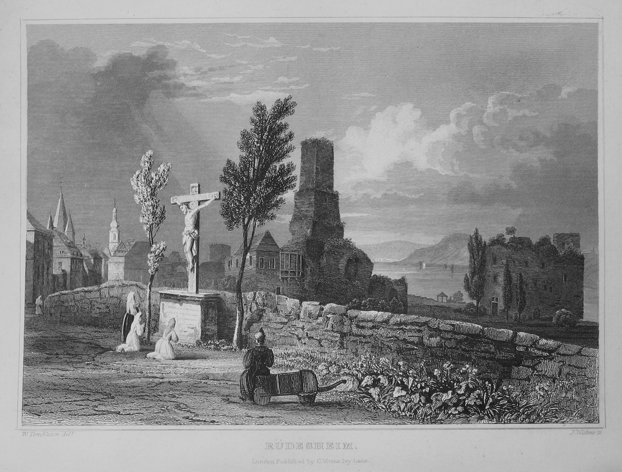 Steel engraving from "Views of the Rhine" by William Tombleson (around 1840): Village of Ruedesheim and ruins of castle Brömserburg